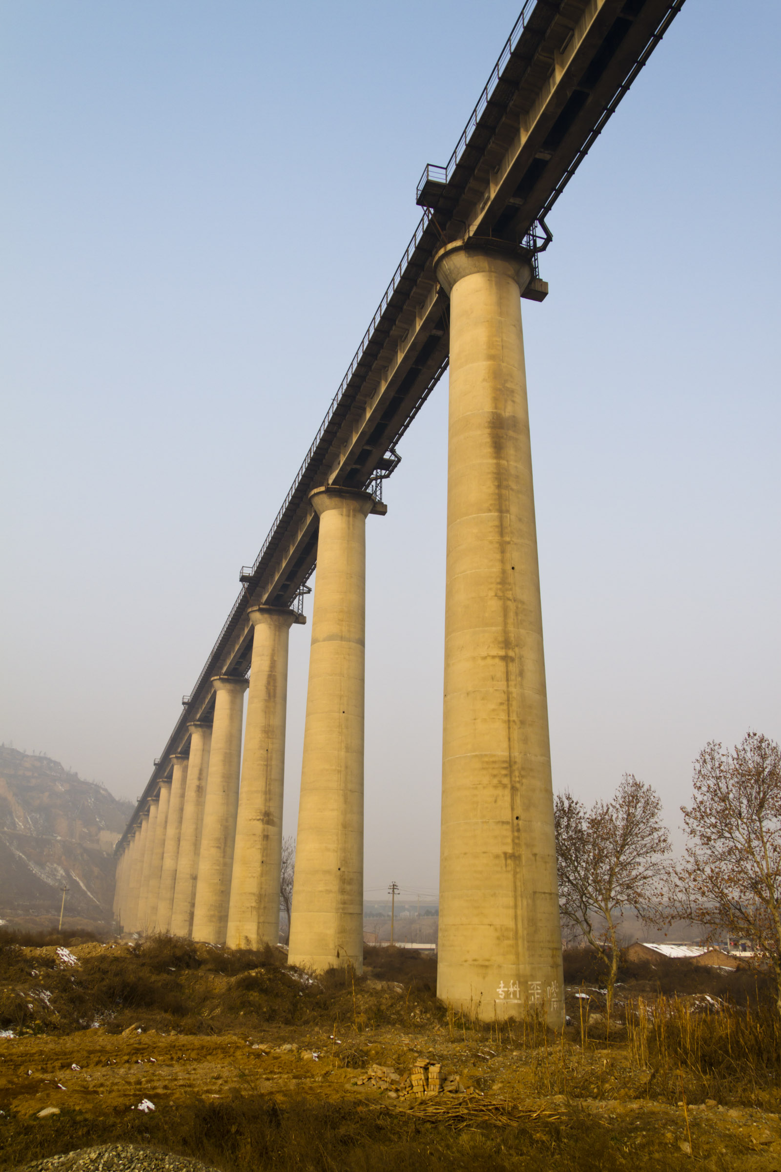 Ningxi Railway You River Bridge